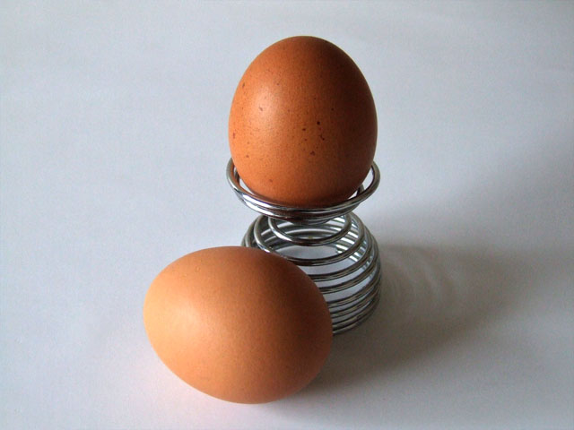 Eggs